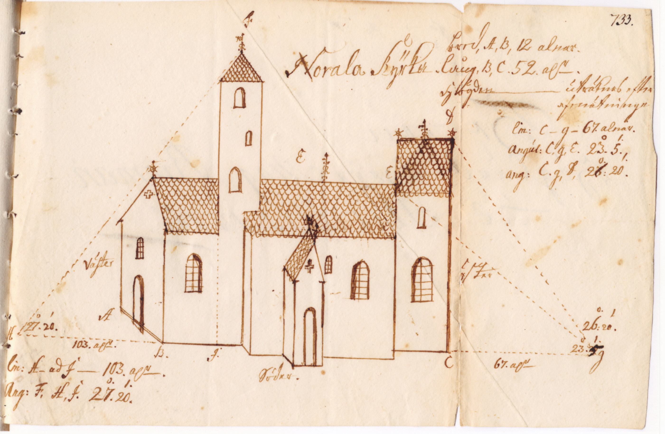 Drawing of the original church in Norrala Parish, Hälsingland, Sweden. The drawing is included in volume 307 in the Palmskiöld collection in Uppsala University Library (UUB). Since the archivist Elias Palmskiöld died in 1719, the drawing must have been made at the latest that year. On the backside, Rev. Olof Broman (historian and provost in Hudiksvall, died 1750) is named as the addressee; he probably forwarded the drawing together with the drawings of a couple of other churches in Hälsingland to Palmskiöld.